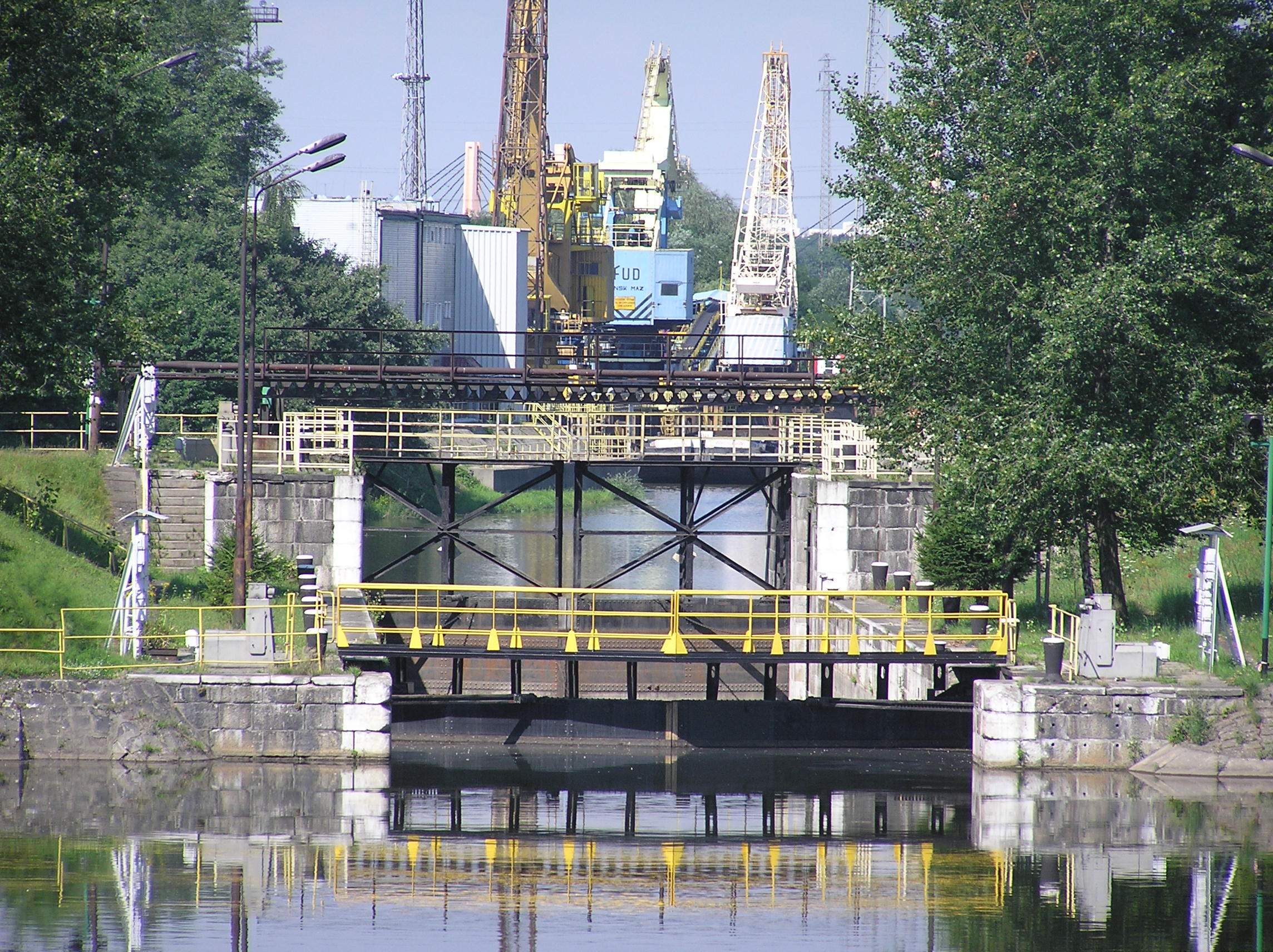 Wrocław, Oder River, trail side Oder waterway (european waterway E-30), Miejski Canal, Miejska Lock